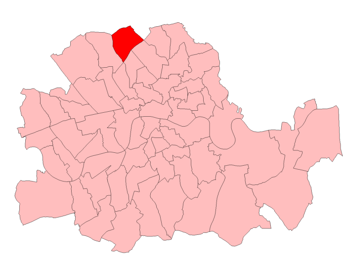 A map of Islington North constituency within the London County Council area, as it existed from 1918 to 1949.